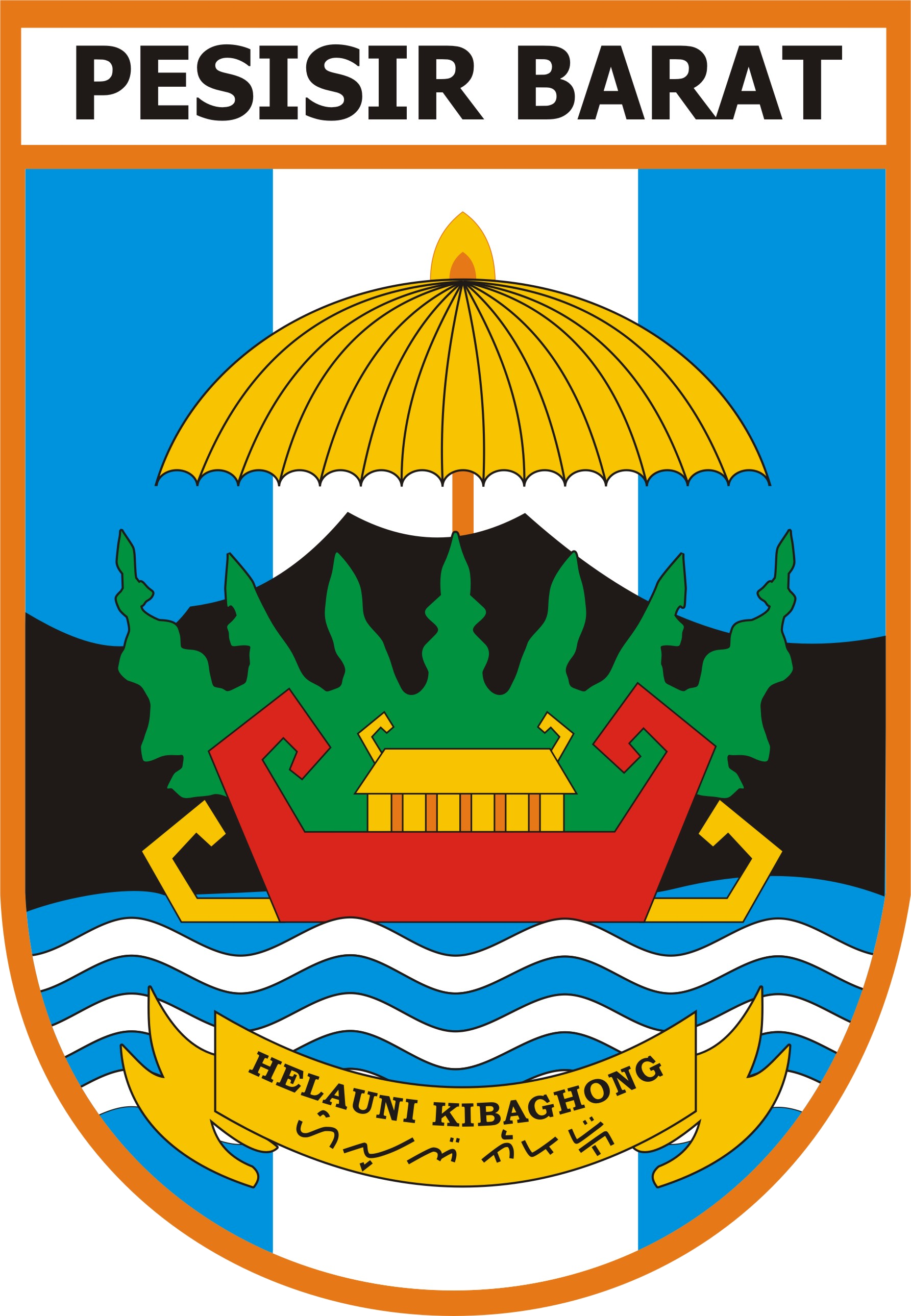 Coat of arms of West Pesisir Regency